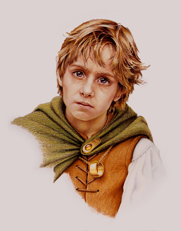 Frodo Baggins by Mark J. Ferrari. Prismacolor Pencil on Vellum Bristol Board.